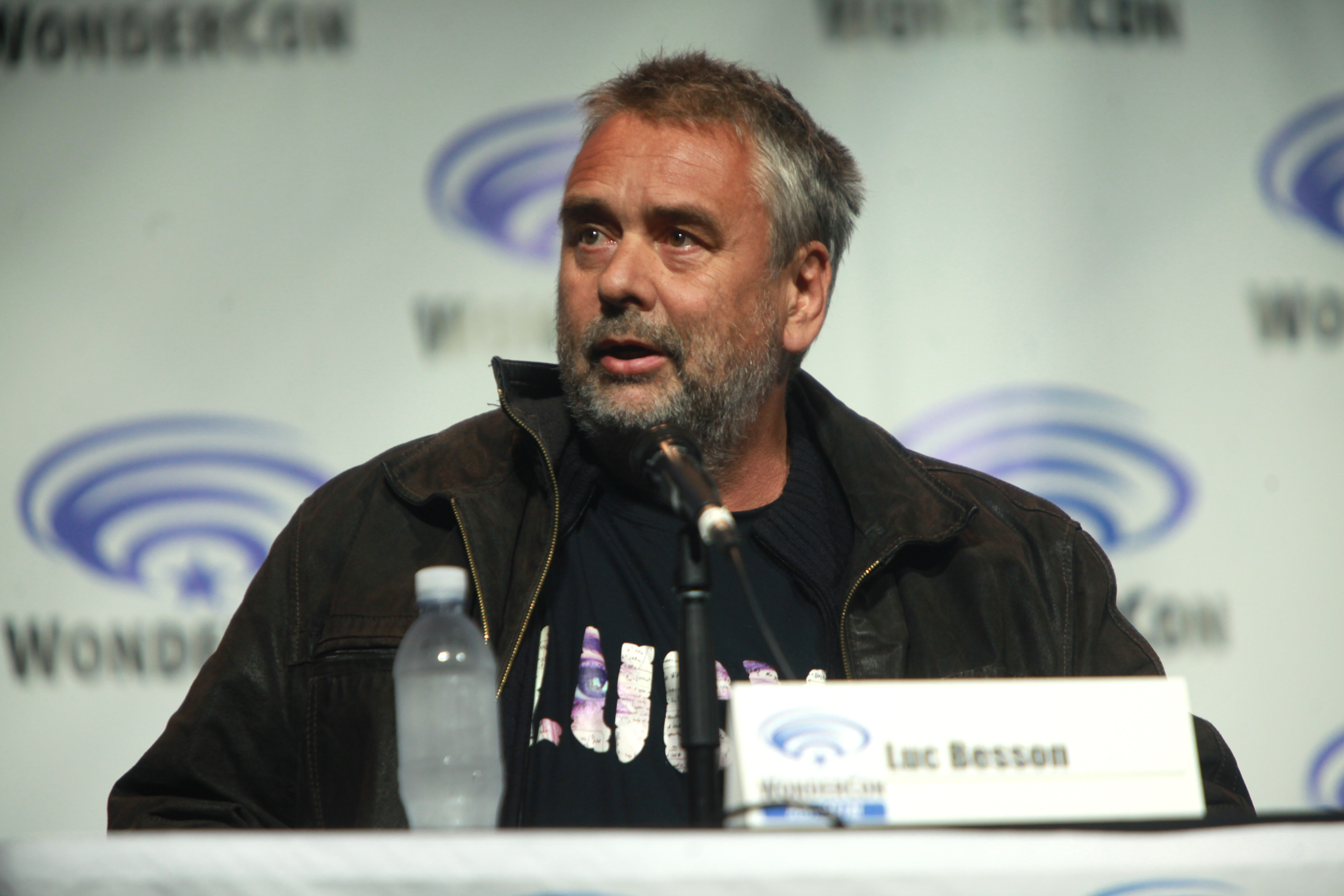 Luc Besson speaking at the 2014 WonderCon, for "Lucy", at the Anaheim Convention Center in Anaheim, California.